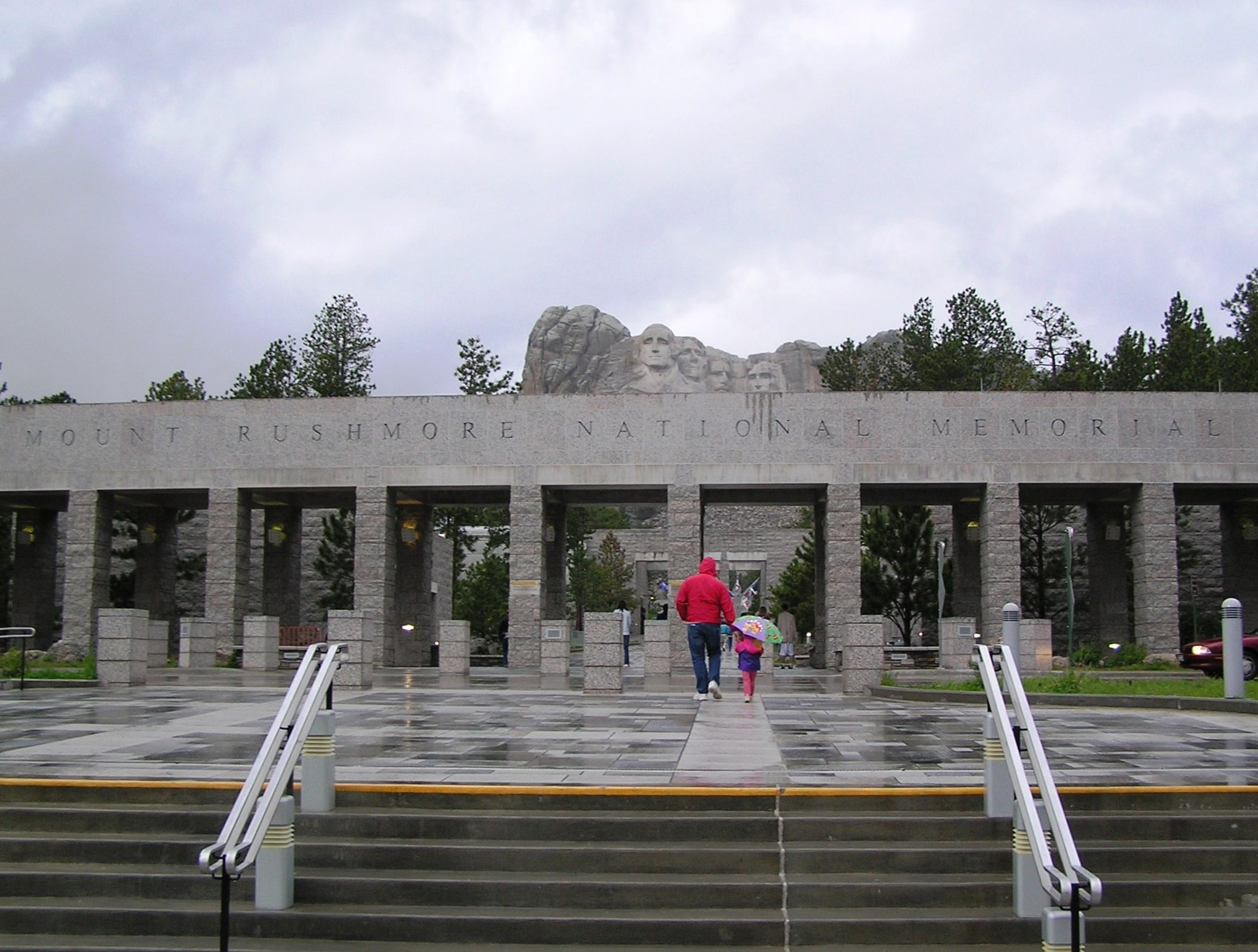 Entrance to Mount Rushmore National Memorial.